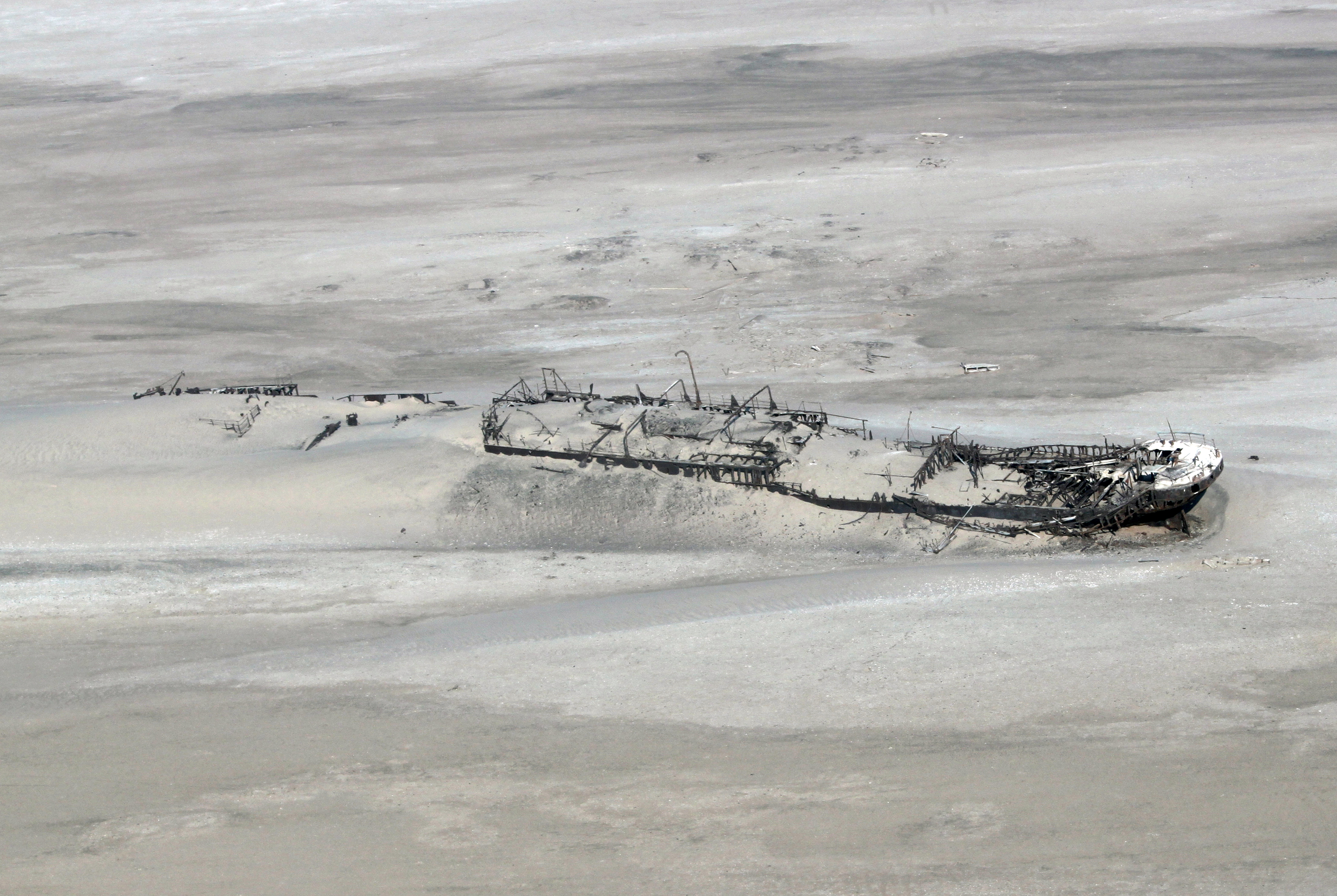 Wreck of the ship Eduard Bohlen that ran aground off the coast of Namibia's Skeleton Coast on September 5, 1909